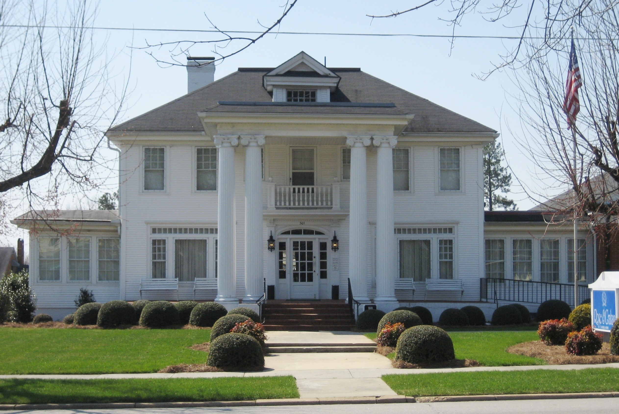 A photo of a Sears Magnolia kit house located in Benson, North Carolina.